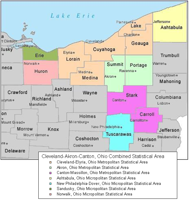 Map of the Cleveland-Akron-Canton, Ohio CSA Based on 2013 U.S. Census Definitions